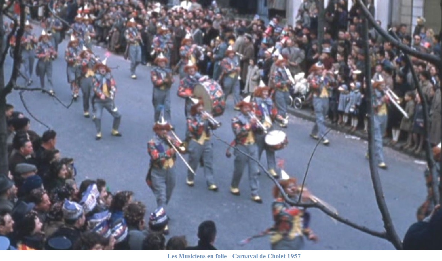 Always present at the carnival of Cholet since 1957